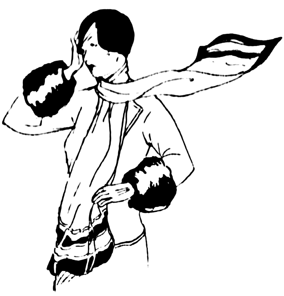 Line art of scarf.